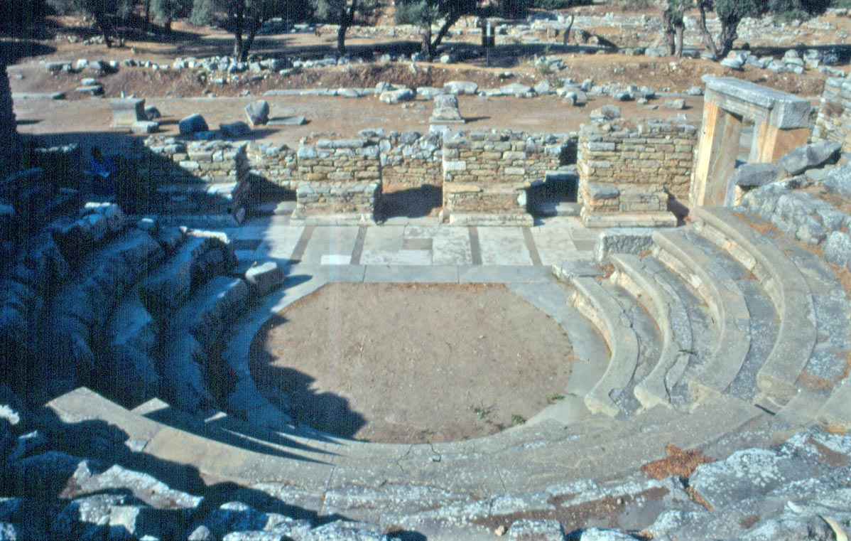 Iasos (Turkey), bouleuterion (trajanic) on the east side of the agora